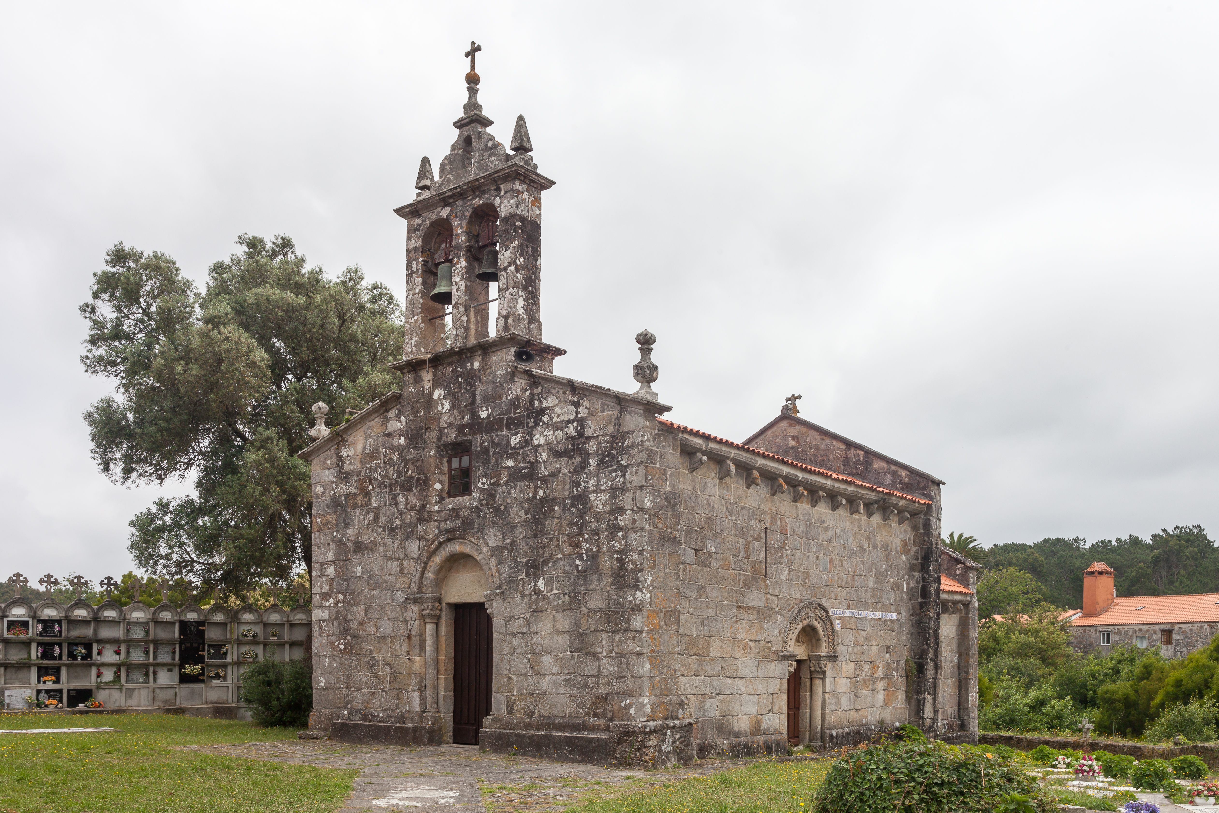 Church of Santiago de Cereixo, Vimianzo, Galicia (Spain).